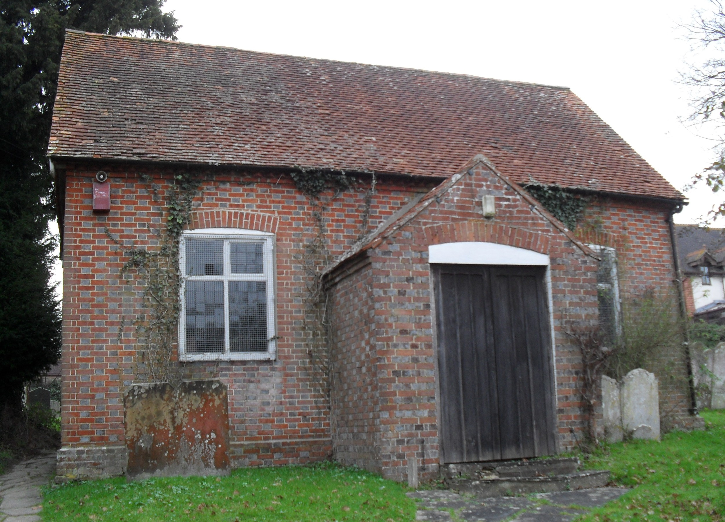 Billingshurst Unitarian Church, High Street, Billingshurst, District of Horsham, West Sussex, England. Founded in the 18th century as a General Baptist chapel. Listed at Grade II by English Heritage (IoE Code 299110)